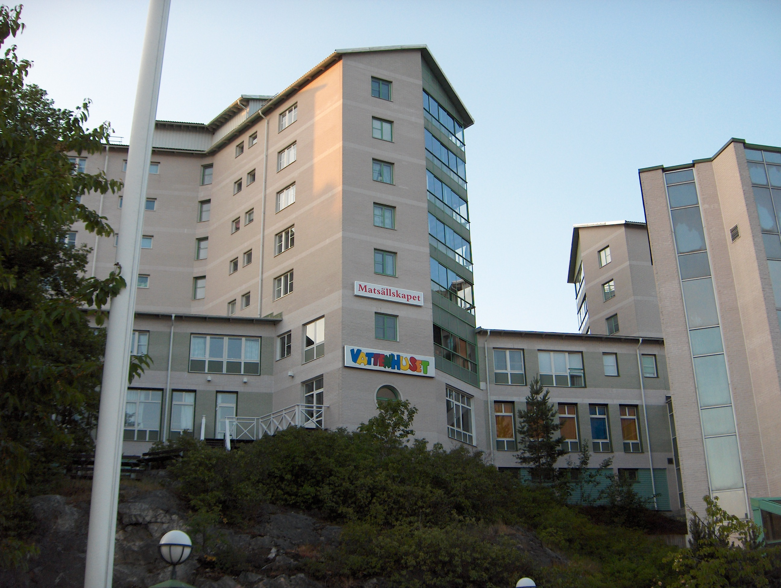 House built by the Morovian Church in Bergshamra, Solna, Sweden.